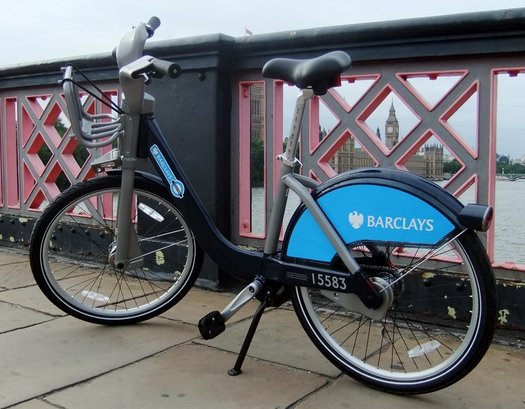 My ride for (a bit of) the afternoon